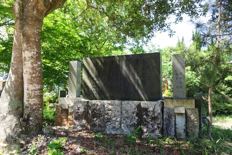 Shiawasenomiya (Taki, Mie).